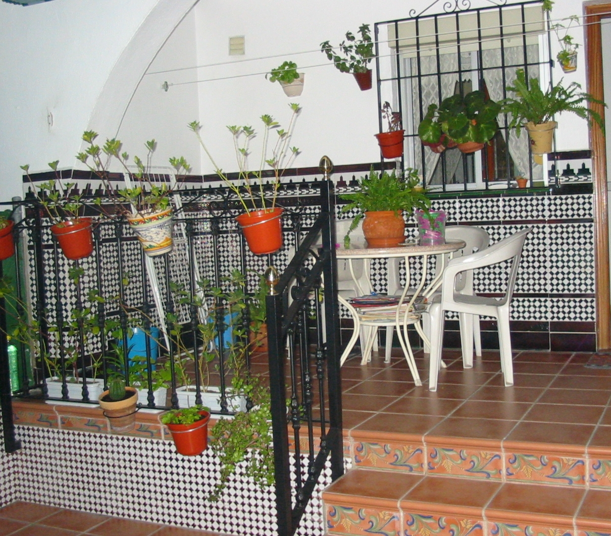 Alicatado de Azulejos. Photo by Asteriontalk 11:04, 3 January 2007 (UTC)